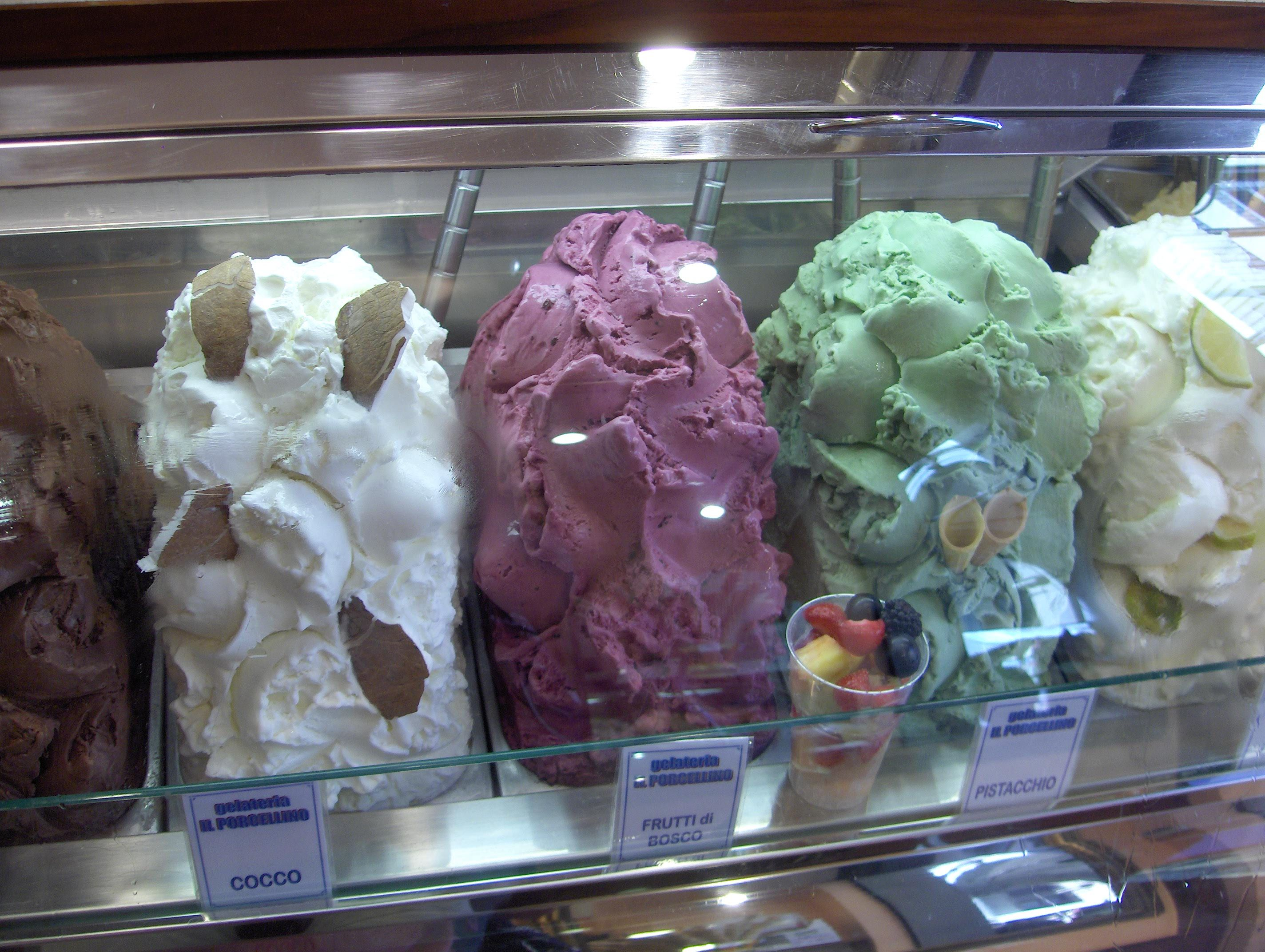 Gelato in Florence, Italy